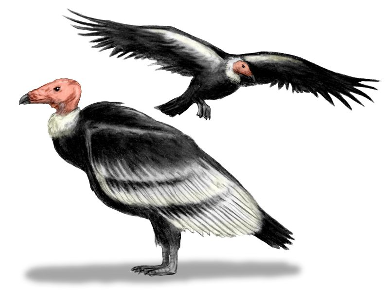 Teratornis merriami, from the Pleistocene of North America, pencil drawing, digital coloring